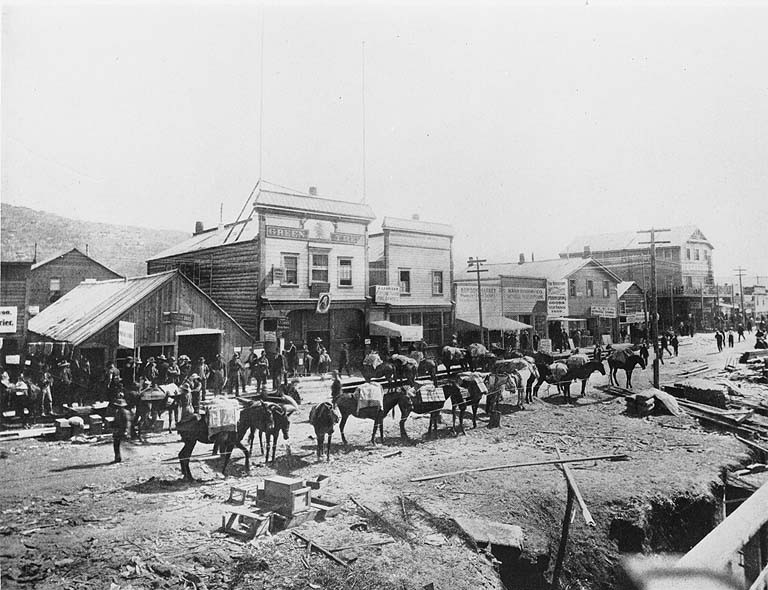 Caption on image: "Bartlett Bros. packtrain, Front Street Dawson" . Klondike Gold Rush. Subjects (LCTGM): Packtrains--Yukon--Dawson; Pack animals--Yukon--Dawson; Buildings--Yukon--Dawson; Streets--Yukon--Dawson Subjects (LCSH): Front Street (Dawson, Yukon)